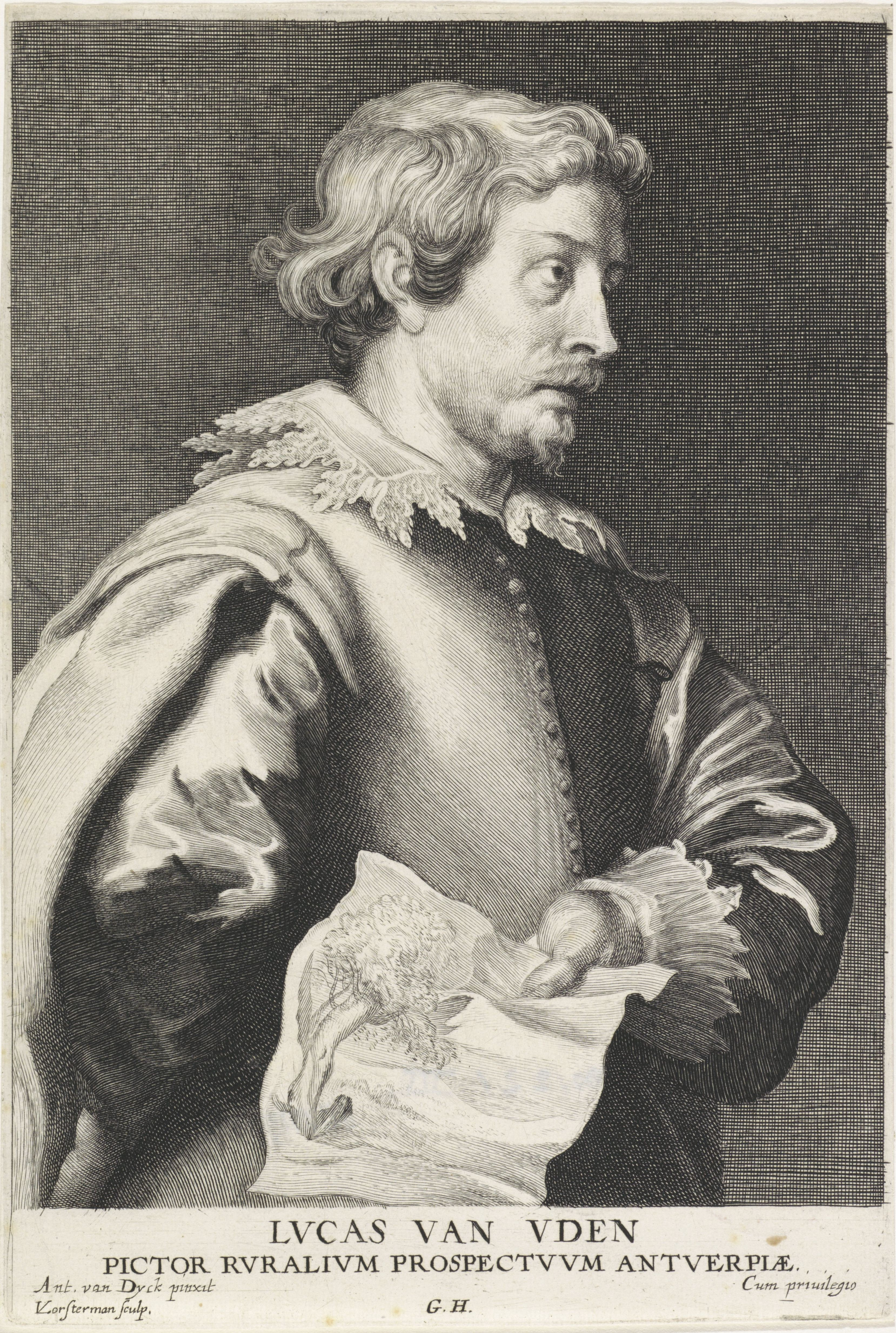 Portrait of Lucas van Uden